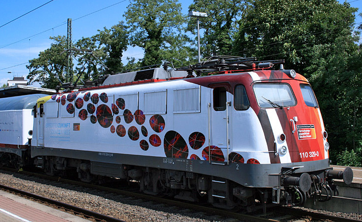 110 329-0 (built in 1964) with ScienceExpress at may 2009 in Neuss